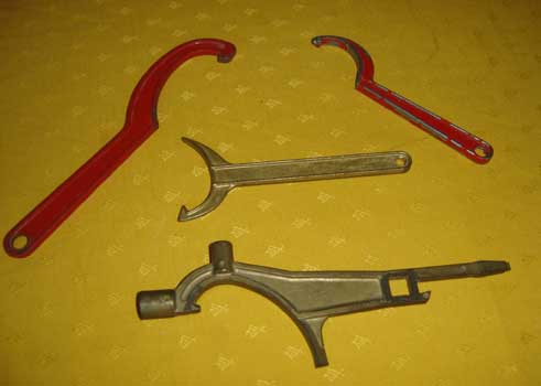 Several french hydrant wrenches